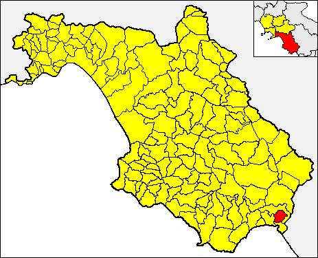 Locator map of the municipality of Torraca (red) within the Province of Salerno